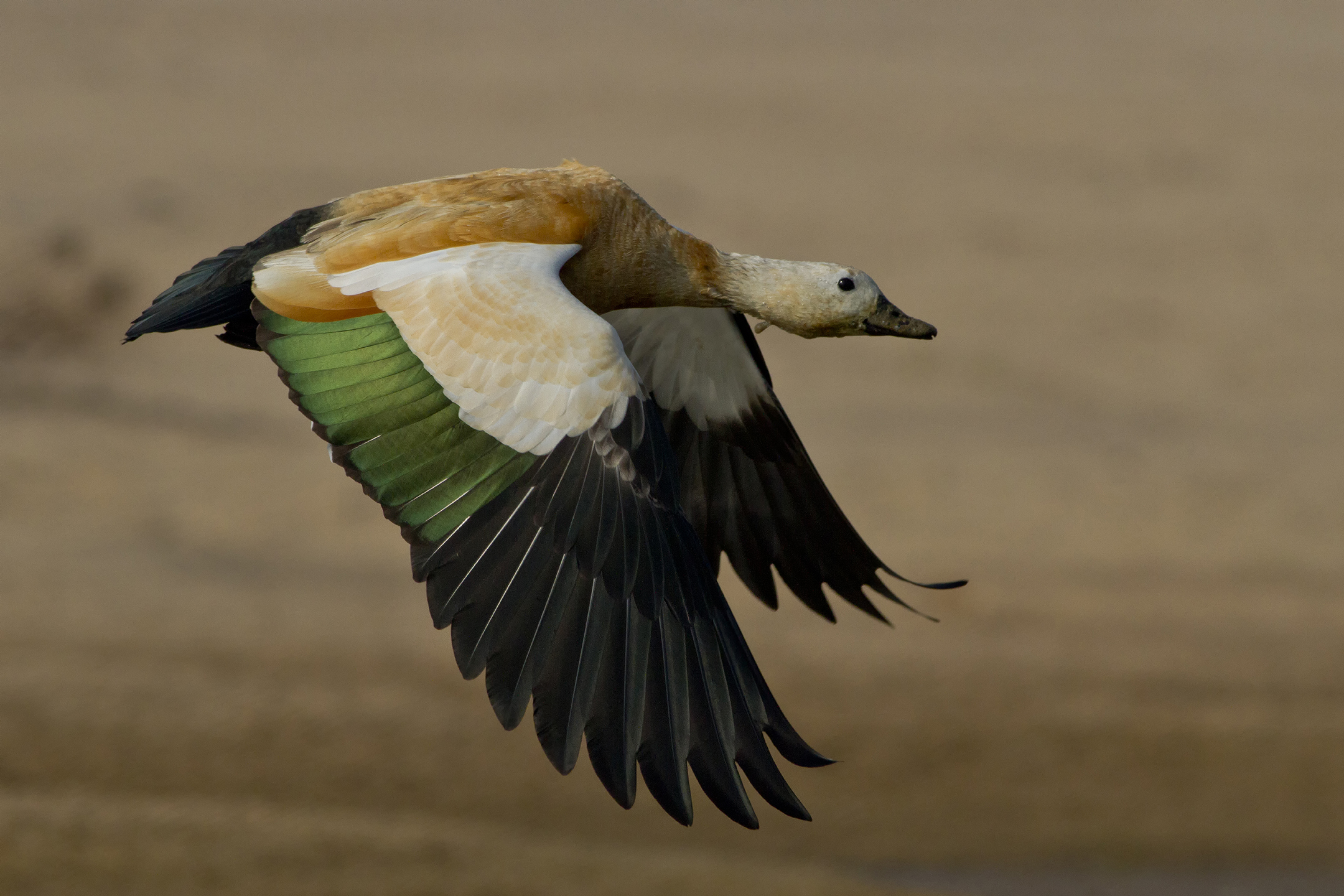 Taken in Chambal River , Chambal national park